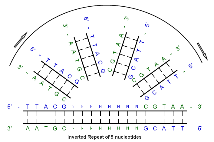 Starting with the 5-nucleotide sequence on the left, make an imaginary copy, invert it and place it on the right. We now have an Inverted Repeat with a short intervening sequence.